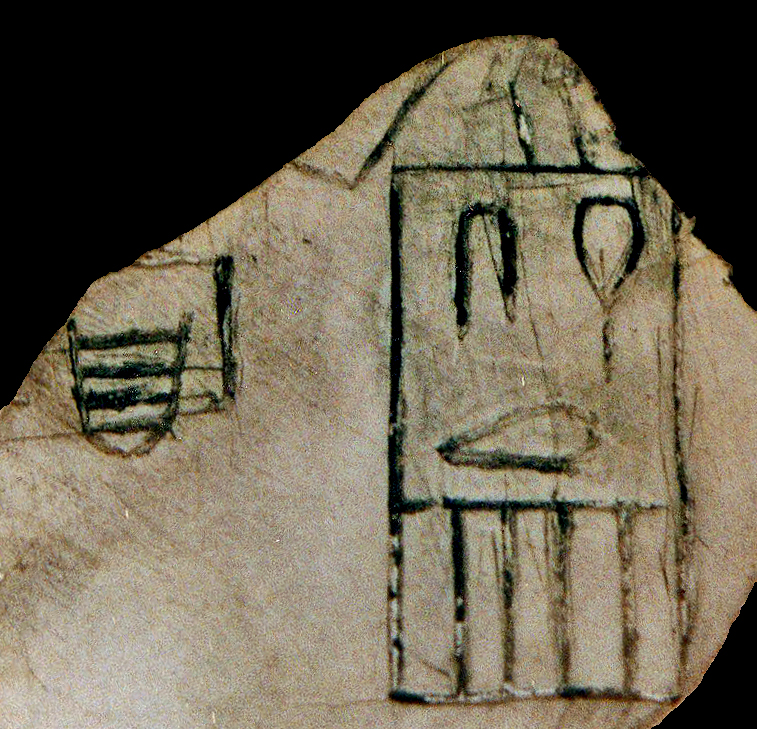 Fragment of a vessel of white marble bearing the serekh of Semerkhet. At the left of the serekh a per bja (meaning "brazen house" or "house of ore") is mentioned. Originally from Abydos, Umm el Qaab, U tomb (Tomb Semerkhet), now in the Egyptian Museum. Petrie, W.M.Flinders. 1900. The royal tombs of the first dynasty. Part I, p.20, Pl VII.2.